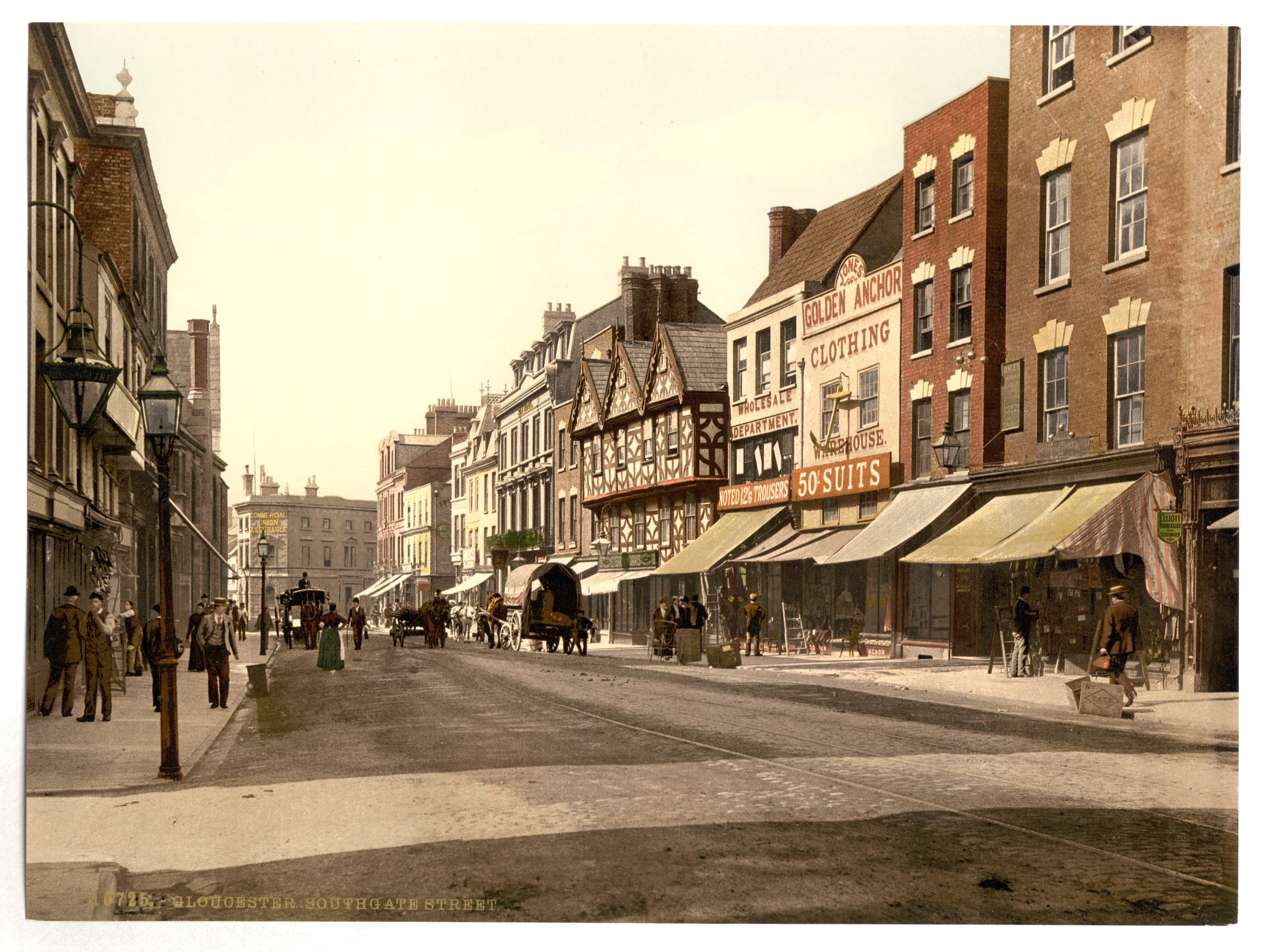 Print no. "10725".; More information about the Photochrom Print Collection is available at Title from the Detroit Publishing Co., Catalogue J-foreign section, Detroit, Mich. : Detroit Publishing Company, 1905.; Forms part of: Views of the British Isles, in the Photochrom print collection.